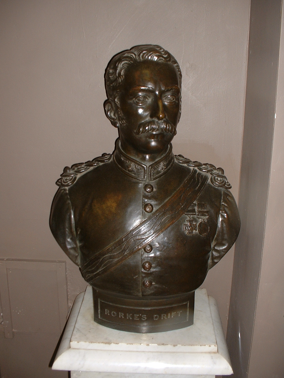 John Rouse Merriott Chard, Bronze bust by Bertrand Mackennal, a copy of the original bust by Papworth. John Rouse Merriott Chard was born in Plymouth on 21 December 1847. He was commissioned into the Royal Engineers in 1868. He was posted to South Africa in 1878. On 22nd January, Lieutenant Chard found himself in command of the small mission at the ford of Rorke's Drift. For valour in the following action, he was awarded the Victoria cross. Photograph was taken in the Somerset County Museum in Taunton on 29-Oct-05.